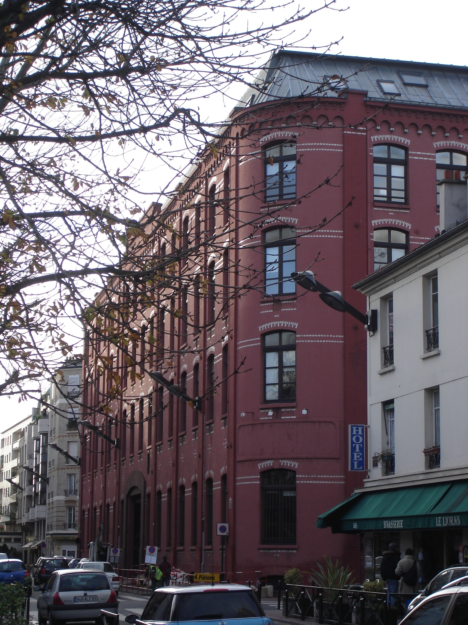 Indusrial building, built in 1907; 83 rue Baudin in Levallois-Perret, suburb of Paris. First used by Delage, the old car manufacturer, then by the chocolate manufacturer François Meunier, then by the watch and avionic control electronics maufacturer Jaeger. Presently, offices.